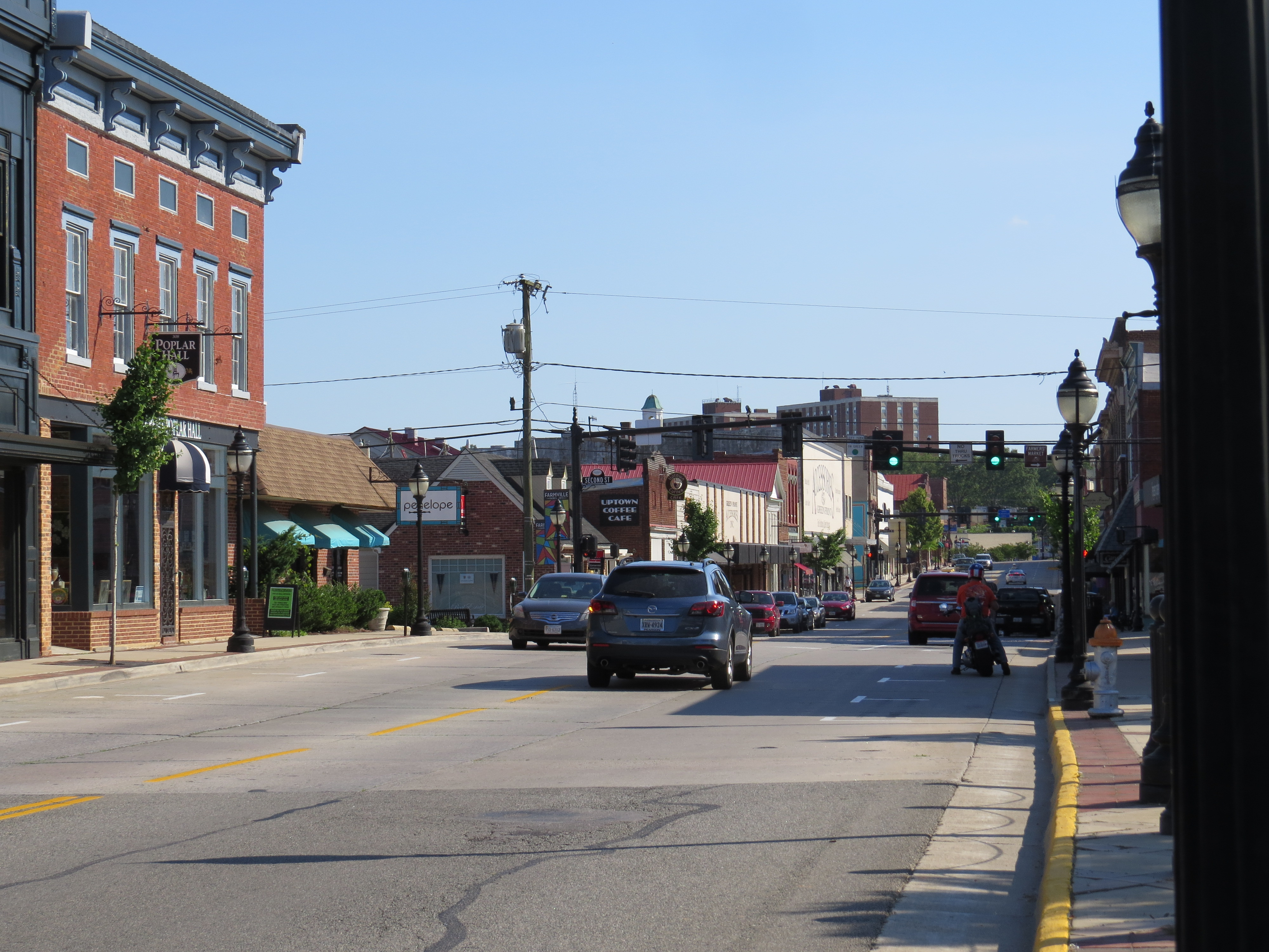 Downtown Farmville, Virginia in June 2017, looking south at the intersection of Main Street and High Bridge Trail State Park.